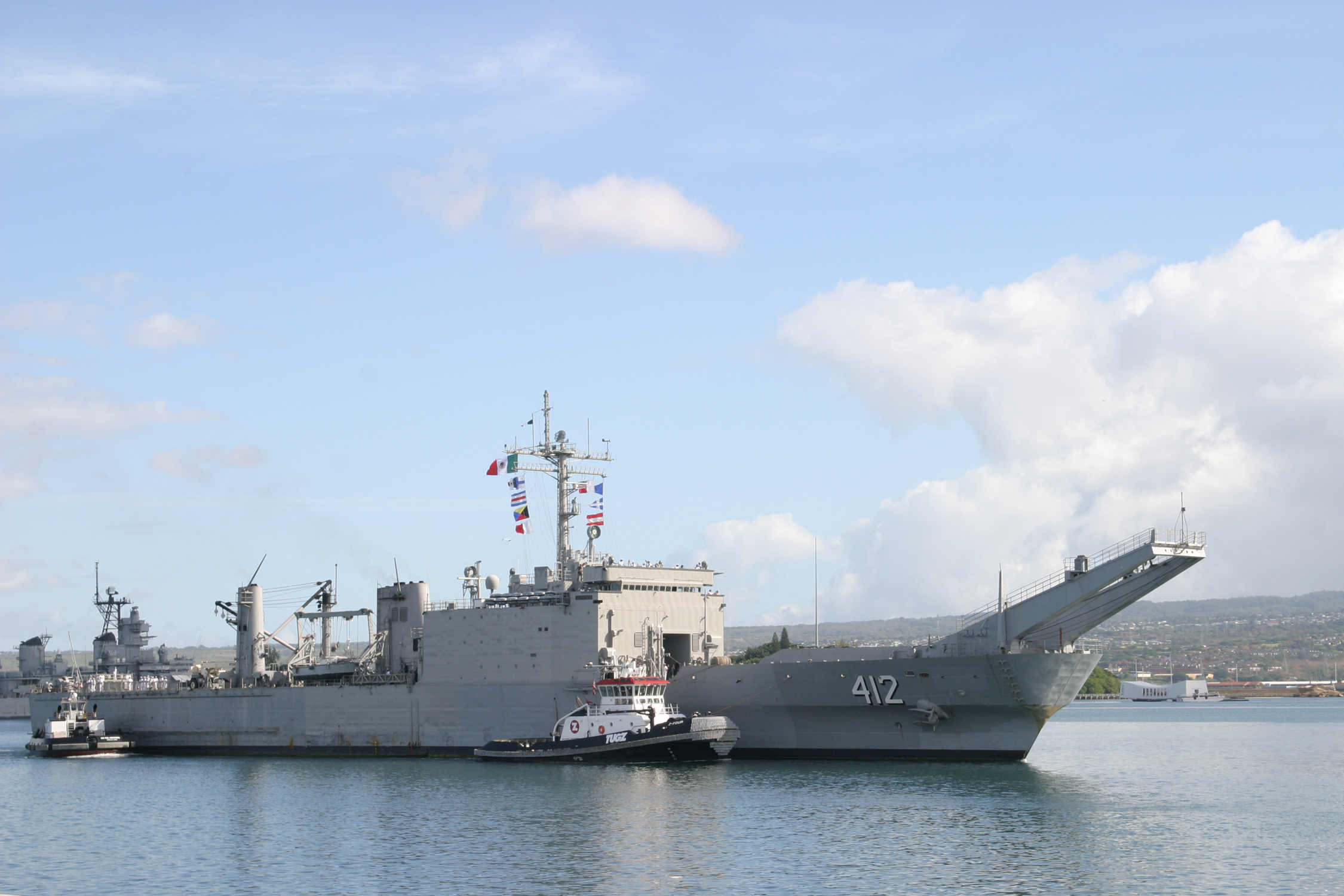 Pearl Harbor, Hawaii (Jul. 23, 2003) -- Mexican Navy ship Usumacinta (A-412), formerly USS Frederick (LST-1184), arrives in Pearl Harbor for a 10-day port visit. Usumacinta was a Pearl Harbor based ship, before it was decommissioned on October 5, 2002 and later sold to the Mexican Navy in December 2002. Usumacinta returned to Pearl Harbor to retrieve machinery parts from the several decommissioned tank-landing ships maintained in the Inactive Ship Maintenance Facility. U.S. Navy photo by Photographer’s Mate 1st Class William R. Goodwin. (RELEASED)